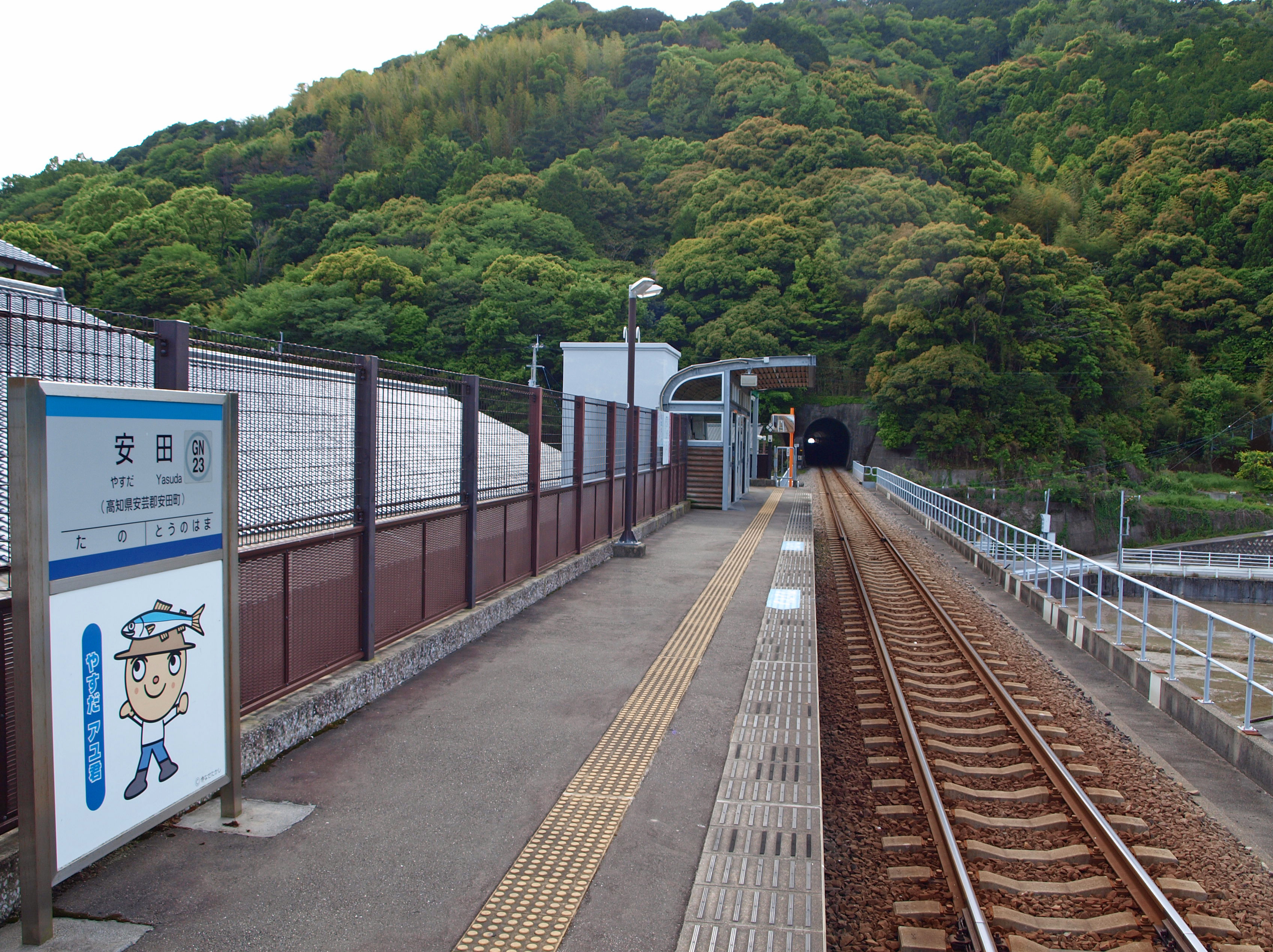 Yasuda Station, Gomen-Nahari Line（Asa Line), Tosa Kuroshio Railway, Japan